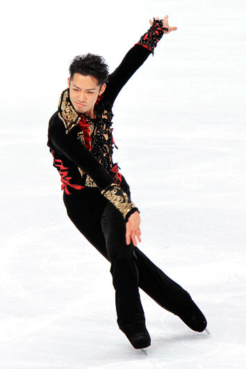 Daisuke Takahashi at the 2010 World Championships (FS).